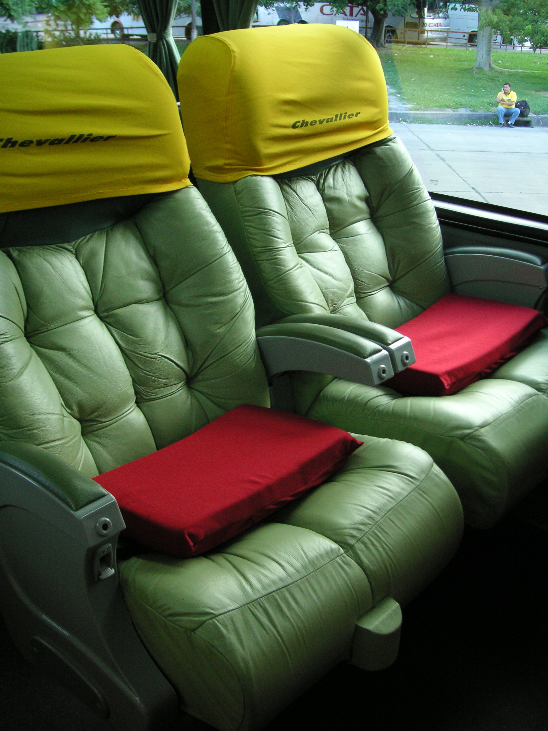 Nueva Chevallier Suite Class...